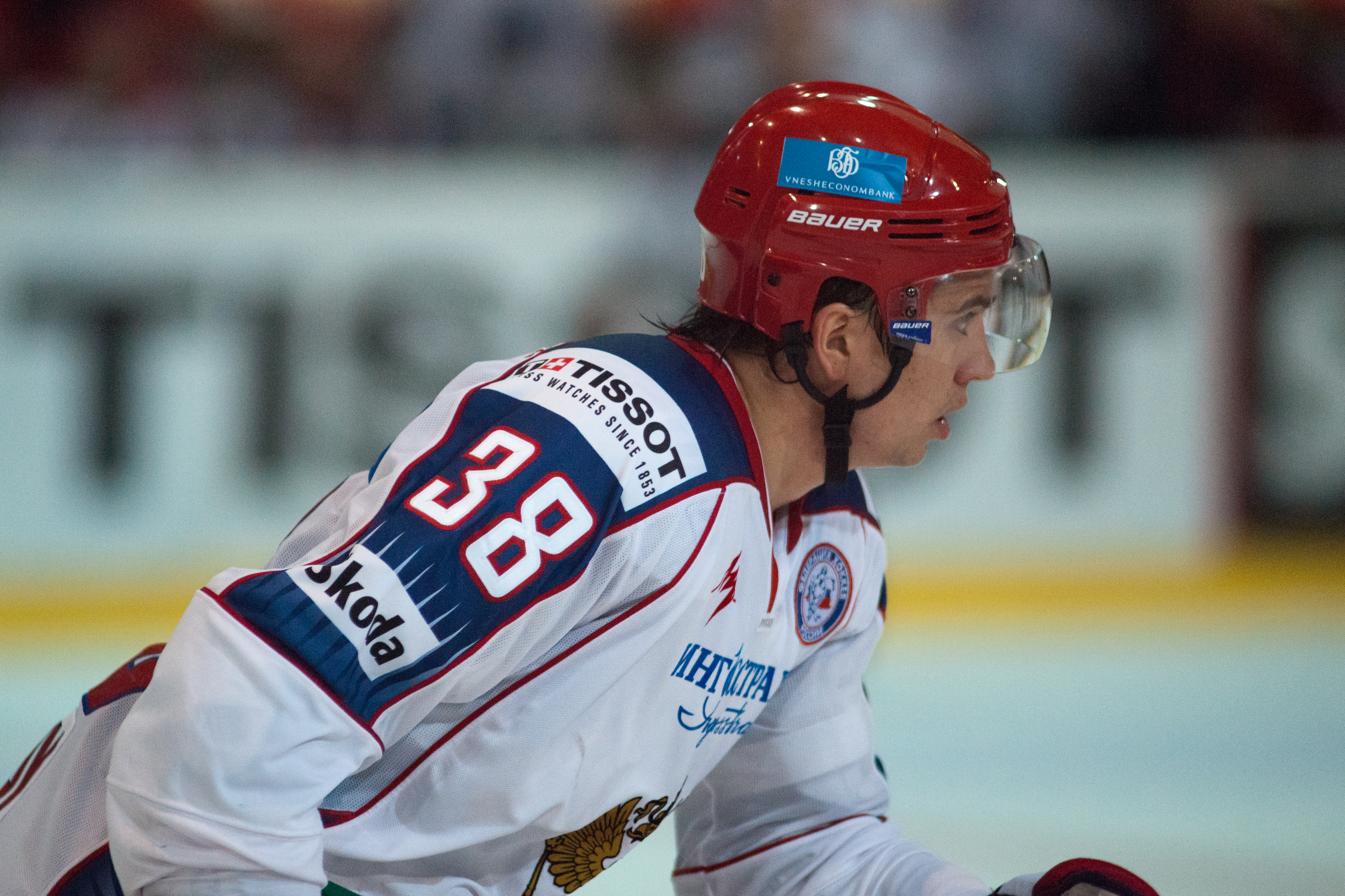 The making of this document was supported by Wikimedia CH. (Submit your project!) For all the files concerned, please see the category Supported by Wikimedia CH. Switzerland vs. Russia, 8th April 2011